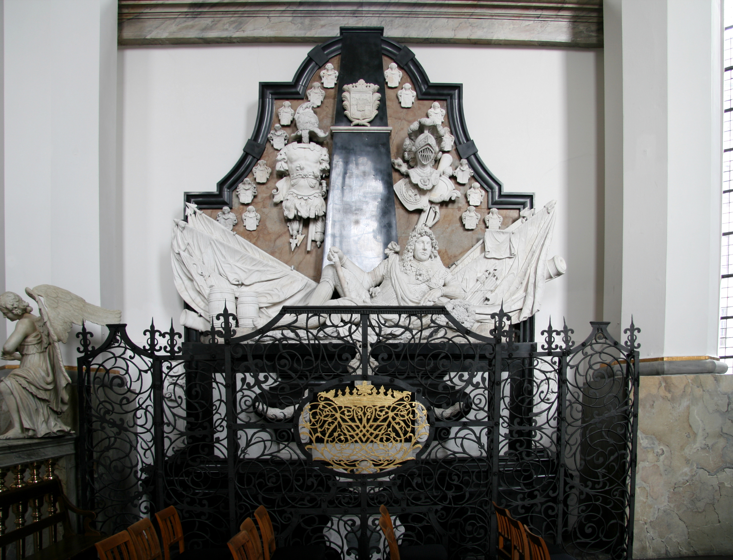 Trinitatis Kirke, Copenhagen, Denmark. Hans Schacks epitafium by Thomas Quellinus.